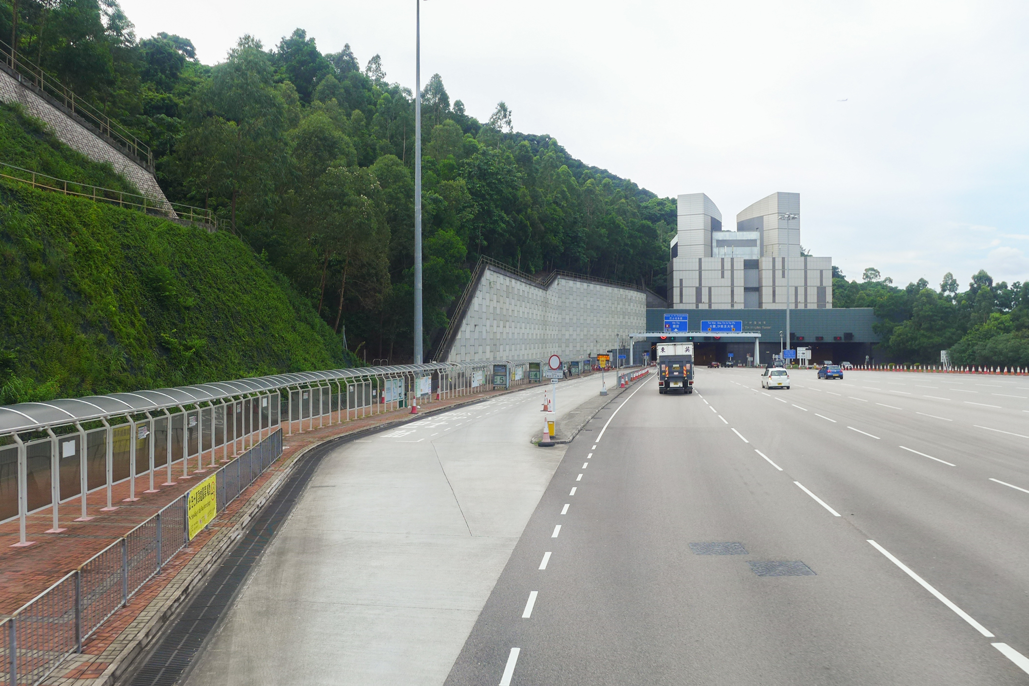 Sha Tin Heights Tunnel Bus stop